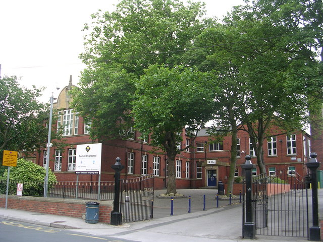 Castleford High School - Healdfield Road